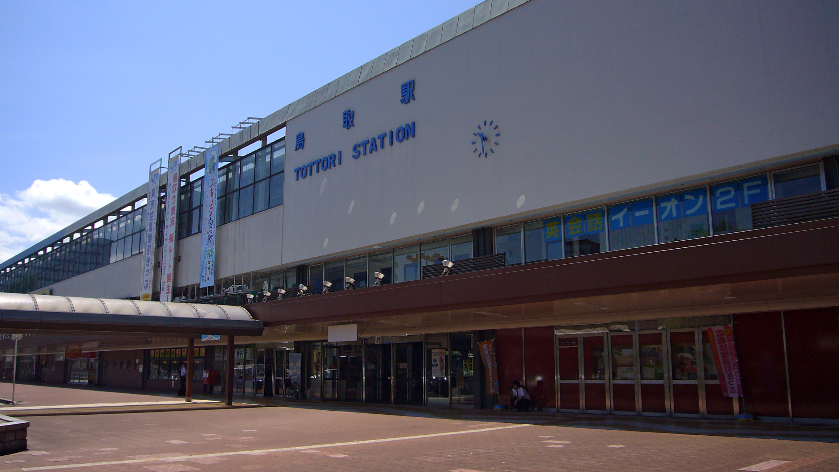 Tottori Station in Tottori, Tottori prefecture, Japan